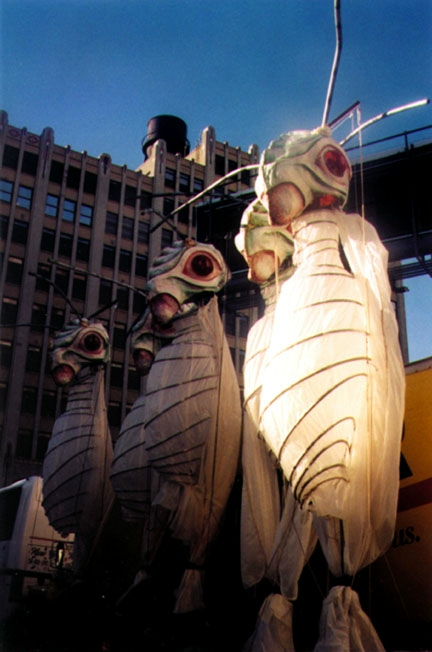 Giant luna moth puppets. 1998 NY Village Halloween Parade. Summary Giant luna moth puppets. 1998 NY Village Halloween Parade.